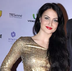 Elli Avram at Celebs grace the Filmfare's Nomination bash